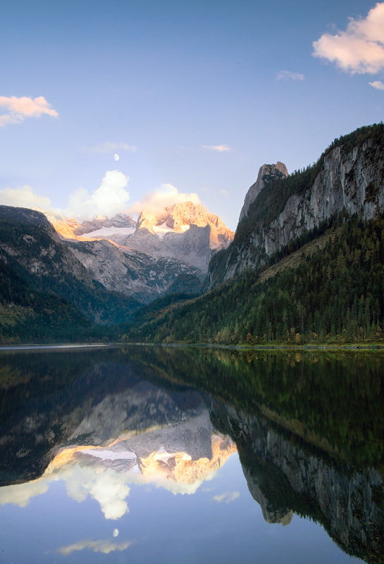 500px provided description: Hello Shot with a Canon EOS 1D Mark III + Polarizer I hope you enjoy my Image and feel free to critique it. Helmut [#Alpglow ,#Nature ,#Landscape ,#Lake ,#Moon ,#Mountain]